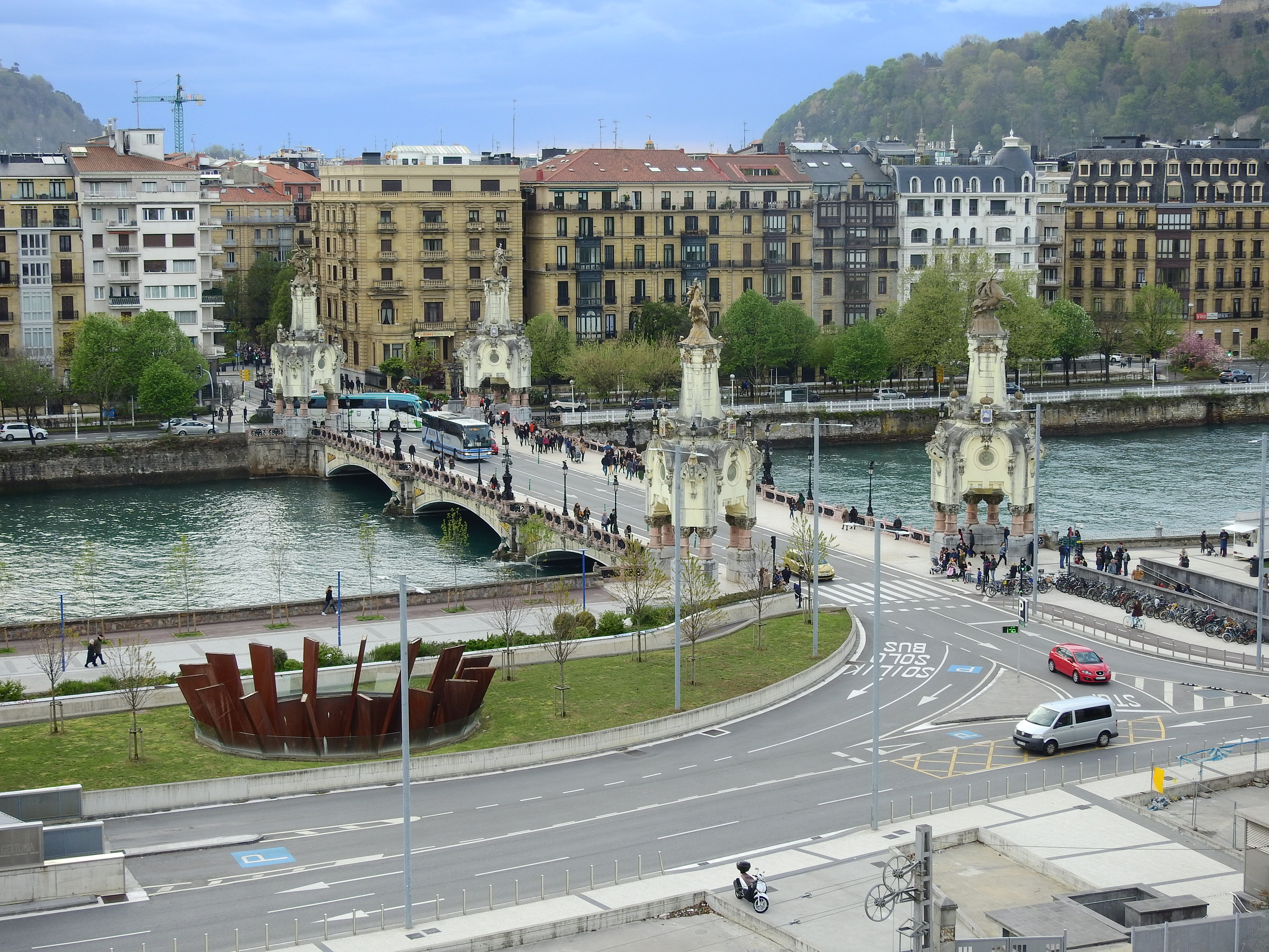 Donostia-San Sebastián, Spain. April 2019.